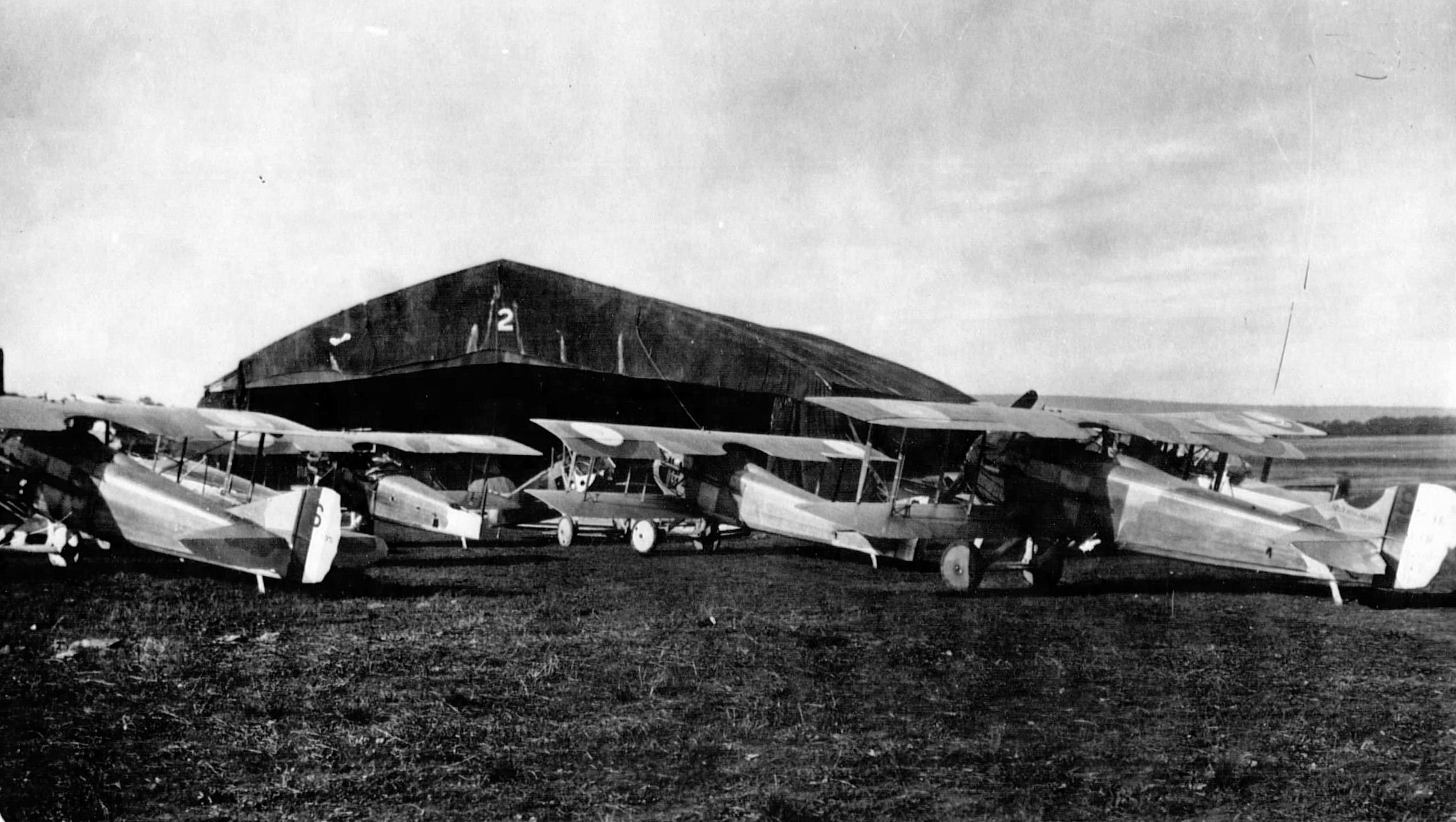 Colombey-les-Belles Aerodrome - 1st Air Depot SPAD Aircraft Source: Series 1, Paris Headquarters and Supply Section, Volume 30 History of the 1st Air Depot at Colombey-led-Belles, Gorrell's History of the American Expeditionary Forces Air Service, 1917–1919, National Archives, Washington, D.C.